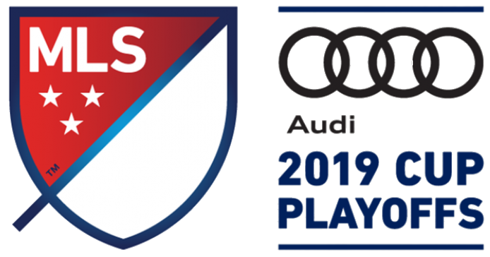 Logo of the 2019 MLS Cup playoffs.